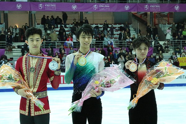 The men's podium at the 2014-2015 Grand Prix of Figure Skating Final. From left: Nathan Chen (2nd), Yuzuru Hanyu (1st), Shoma Uno (3rd).